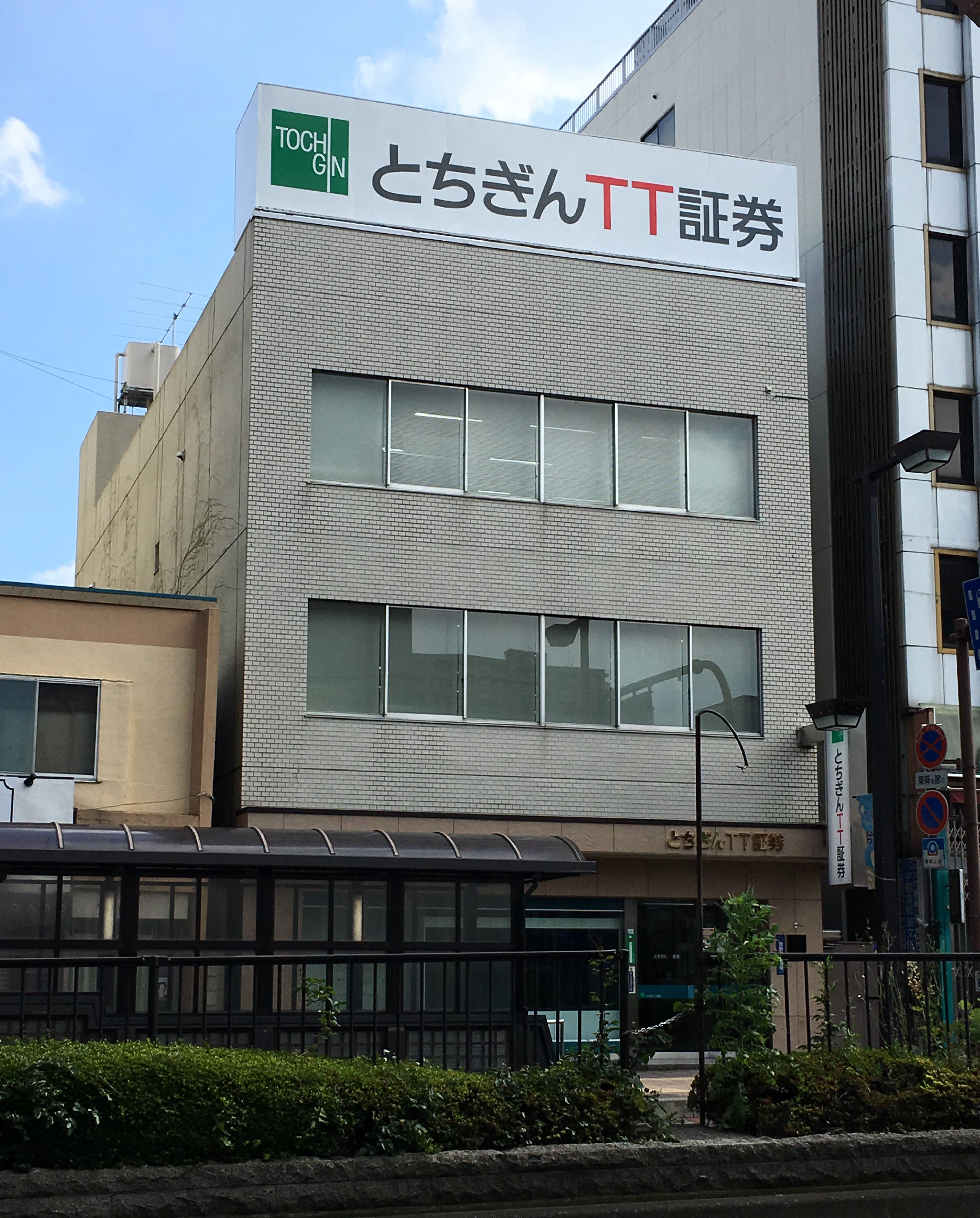 Tochigin Tokai Tokyo Securities (Stock company in Utsunomiya, Japan)